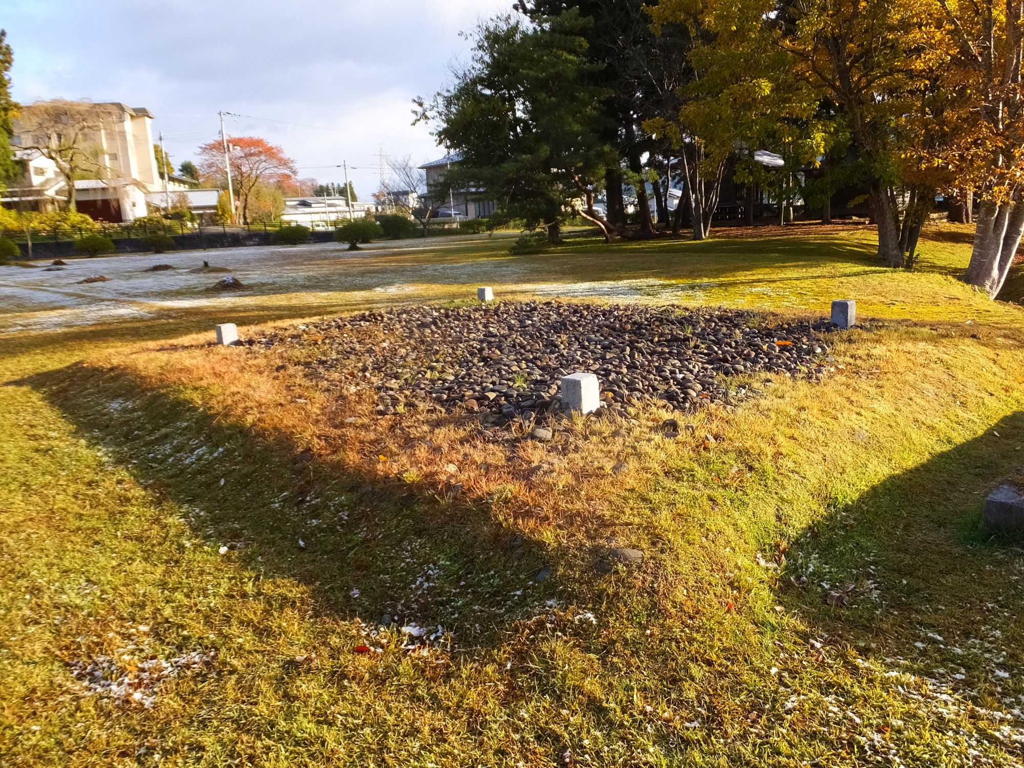 The ruins of Kanjizaiō-in temple in Hiraizumi, Iwate Prefecture